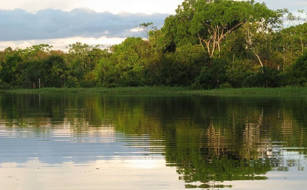 Floresta Estacional Sempre-Verde, a new type of vegetation identified and cataloged in Brazil.